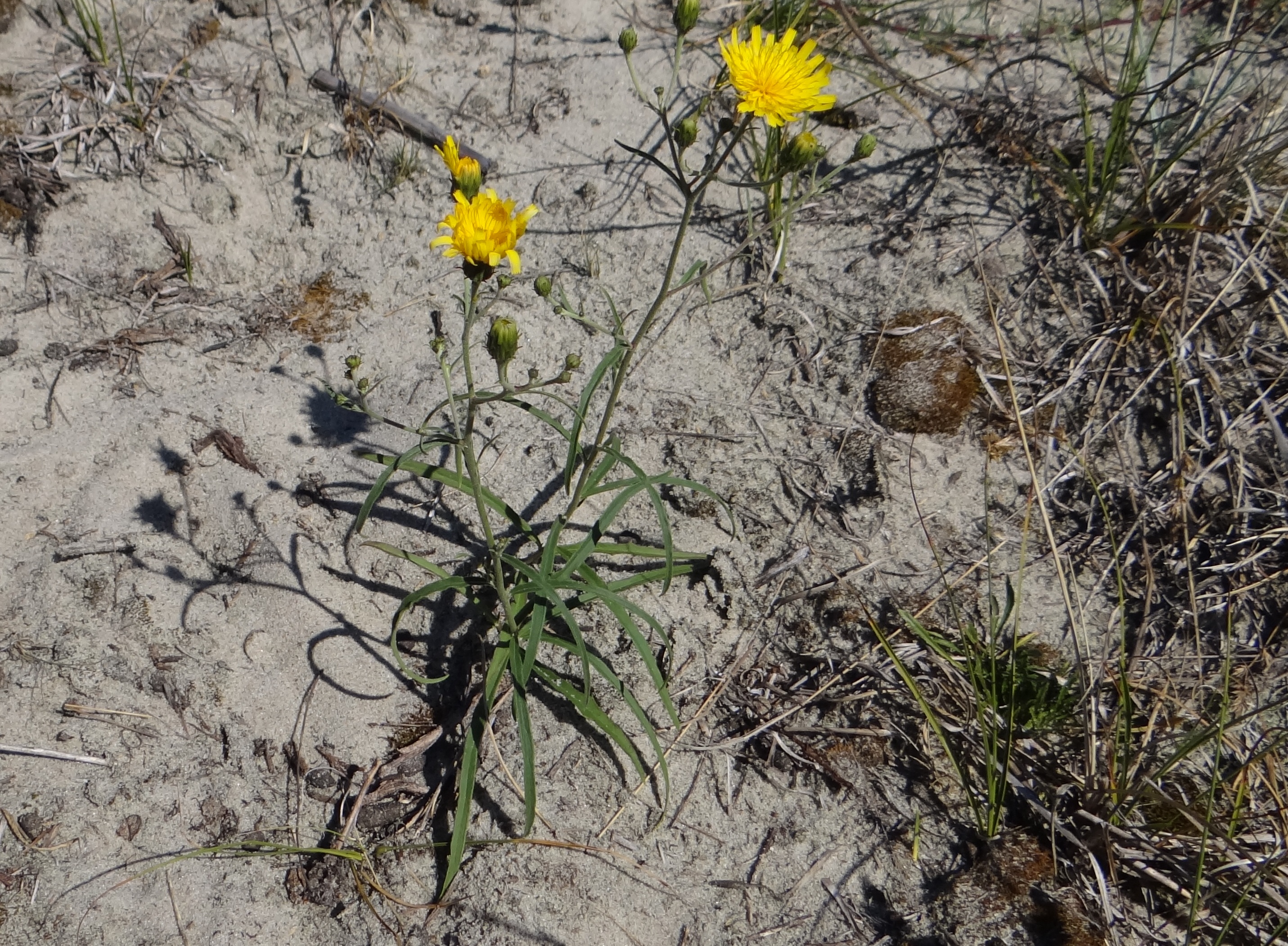 Hieracium umbellatum (location: Poland, Krynica Morska)